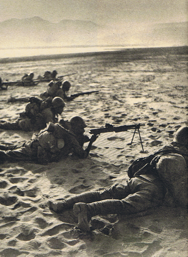 Battle of Zaoyang-Yichang: Soldiers of IJA 18th Infantry Regiment at the west side of the Han River on the evening of May 31, 1940. The next day the 3rd Division, which the regiment belonged to, went on to occupy the city of Xiāngyáng on its way to Yíchāng.